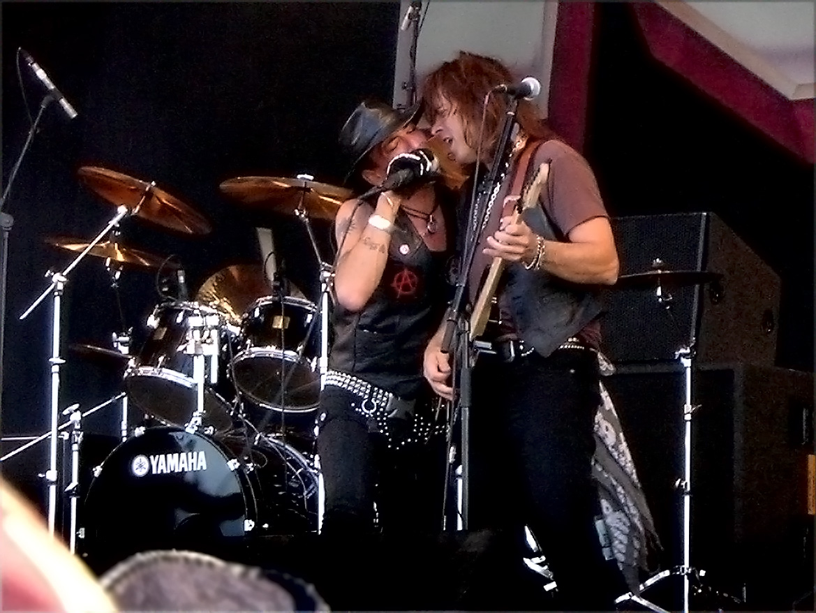 Glam metal band Ratt performing at the 2008 Sweden Rock Festival. Singer Stephen Pearcy and guitarist Warren DeMartini can be seen in the image.